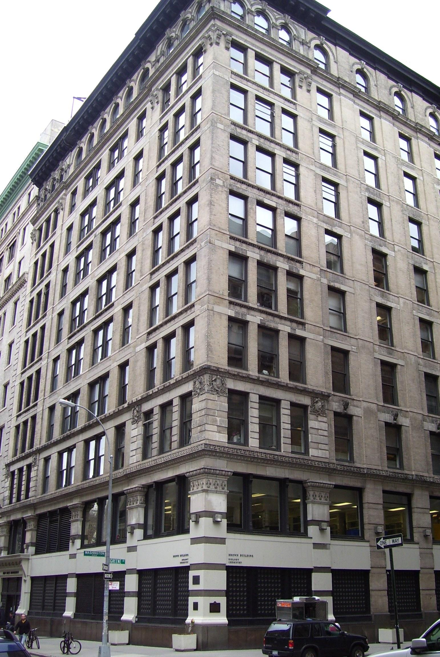 The Brown Building, at 23-29 Washington Place between Greene Street and Washington Square East in the Greenwich Village neighborhood of Manhattan, New York City, was the site on March 25, 1911 of the Triangle Shirtwaist Factory fire, in which 146 garment workers, mostly young women, died, due to there being no way for them to exit the building. In the wake of the fire, landmark legislation was passed to protect the health and safety of workers. The Asch Building, as it was called, was built in 1900-01, designed by John Wooley in neo-Renaissance style. The Triangle Shirtwaist Company occupied the top three floors. The building's facade was relatively undamaged by the fire, and New York University began renting parts of in 1916. In 1929, Frederick Brown, the owner at the time, donated the building to the university. The building was designated a National Historic Landmark in 1991 and a NYC landmark in 2003. There is a memorial plaque on the building from the International Ladies' Garment Workers Union, which was instrumental in getting the legislation passed, and historical plaques from the National Parks Service and the New York Landmarks Preservation Foundation. {Source: Guide to NYC Landmarks (4th ed.))